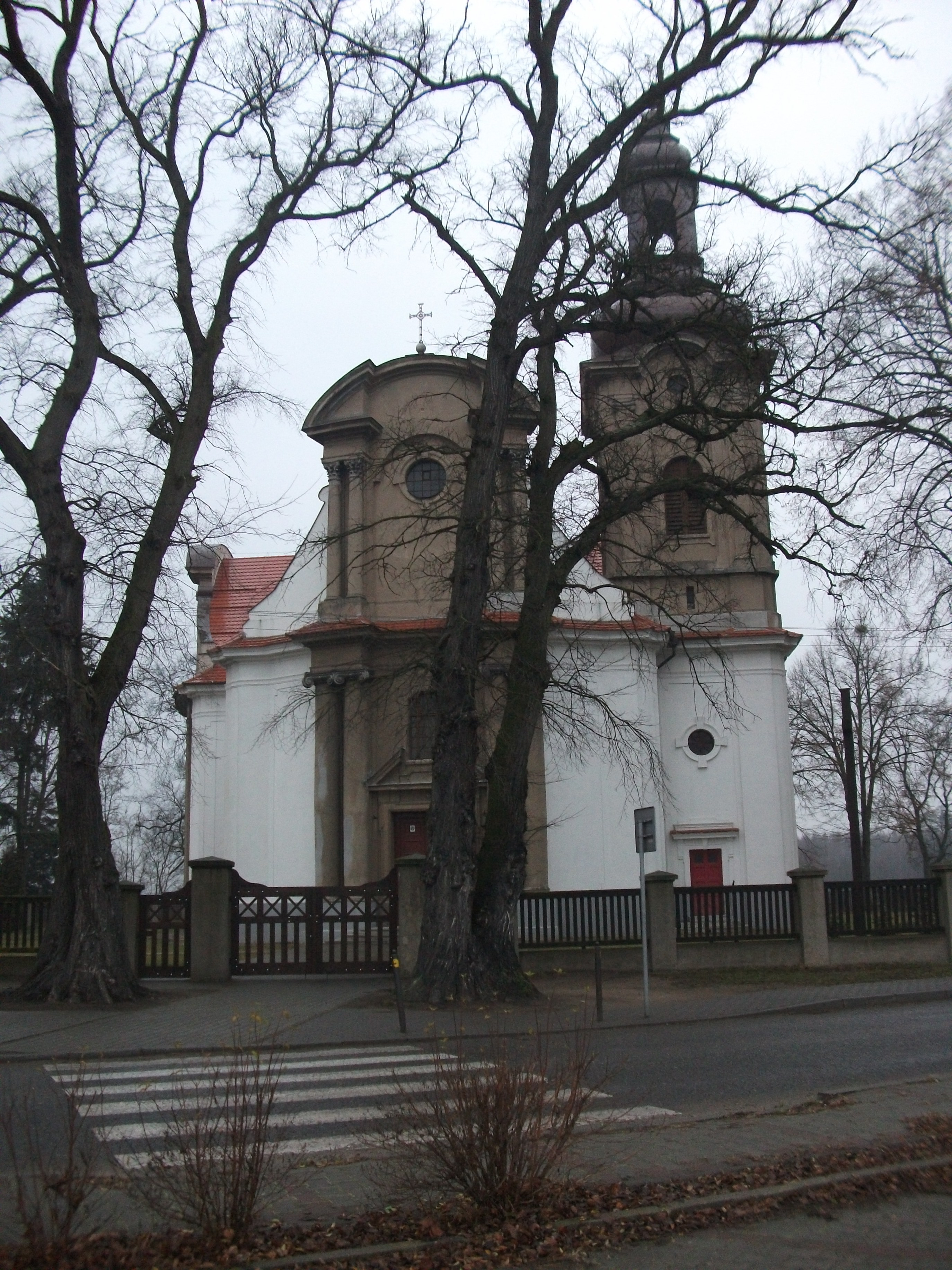 Sokolniki - Church of St. James the Greater, Sokolniki, Kirchhof